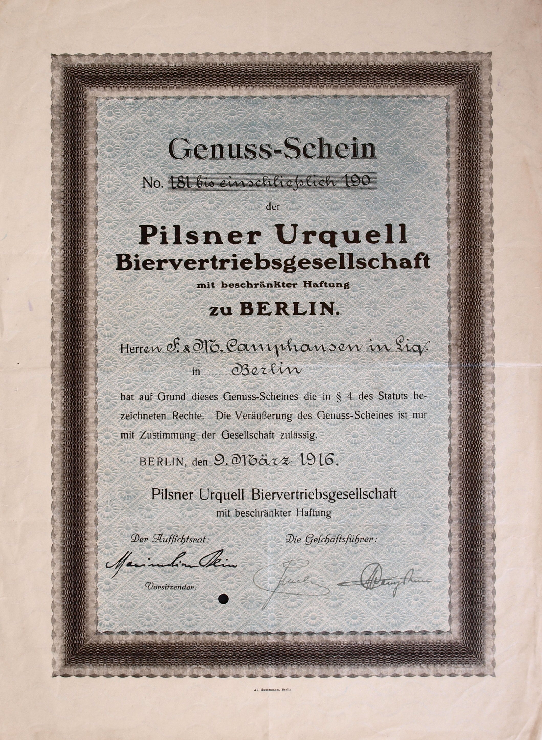 Participation certificate of the Pilsner Urquell Vertriebsgesellschaft mbH in Berlin, issued 9. March 1916